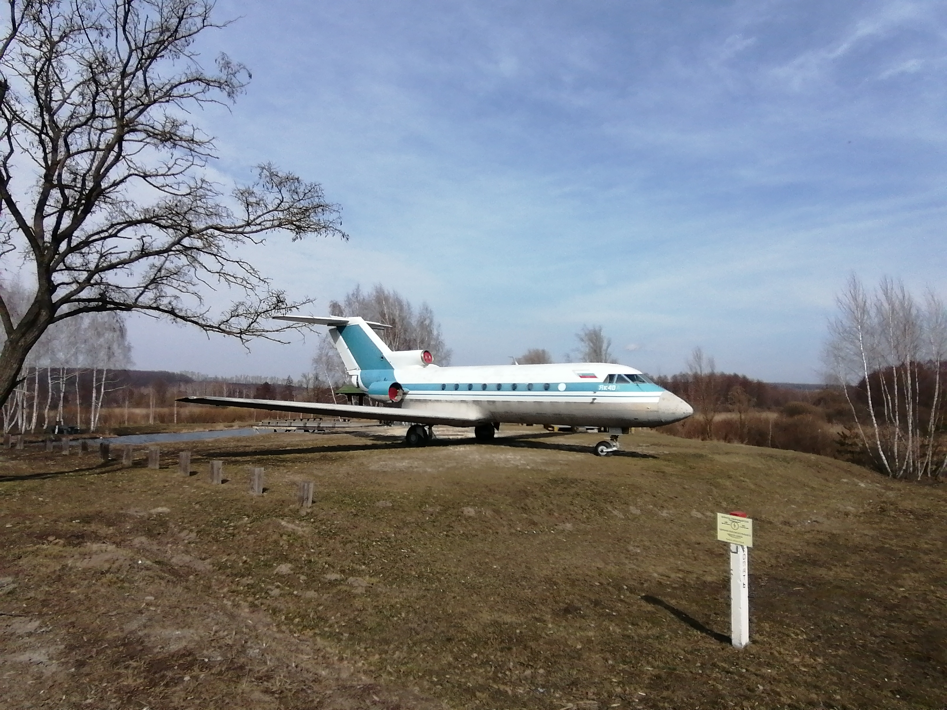 The Yak-40 RA-87550 is set to the highway in the Belgorod region between the villages of Seretino and Porubezhnoe.